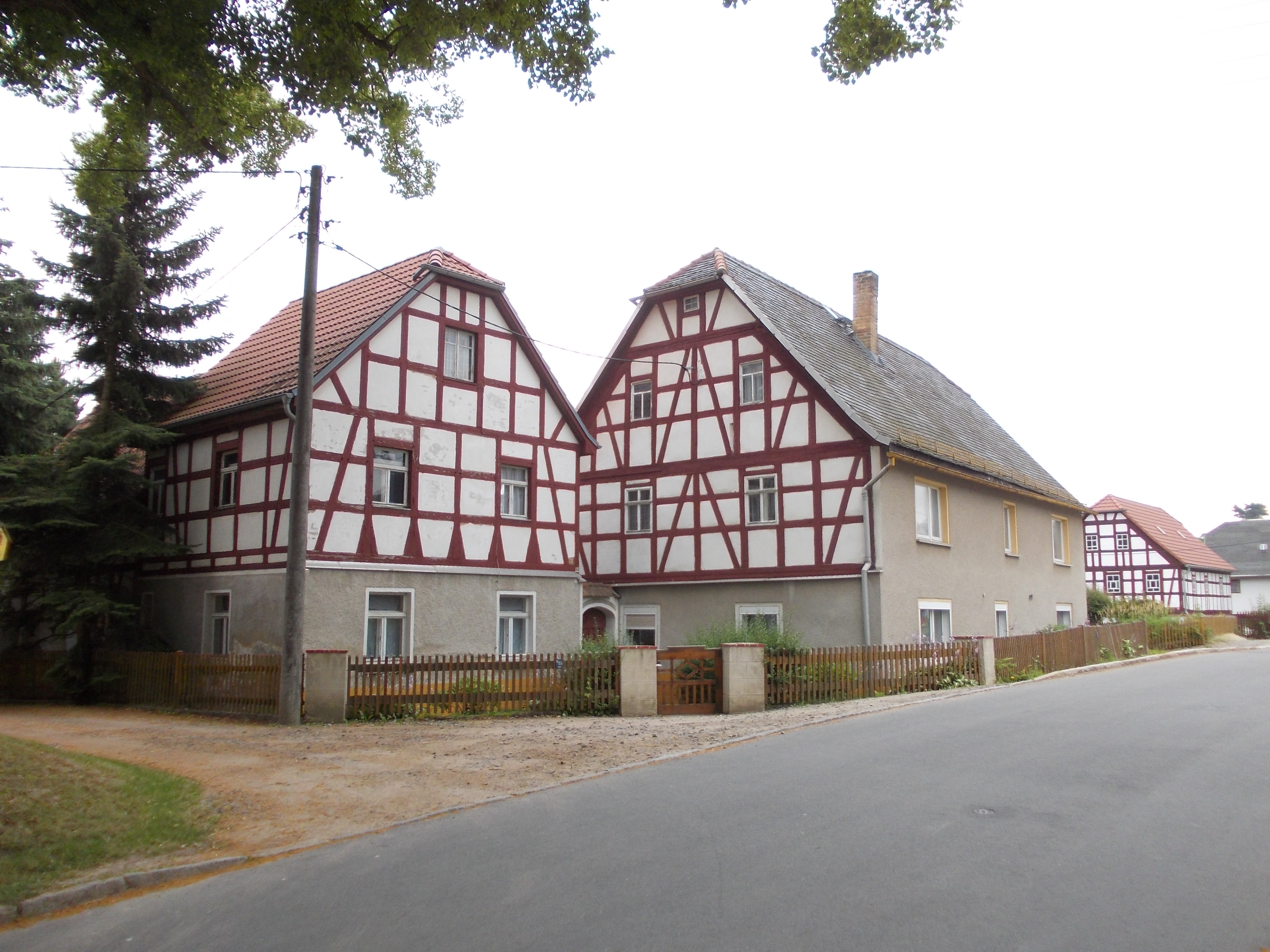 Half-timbered houses near the church in Rudelswalde (Crimmitschau, Zwickau district, Saxony)